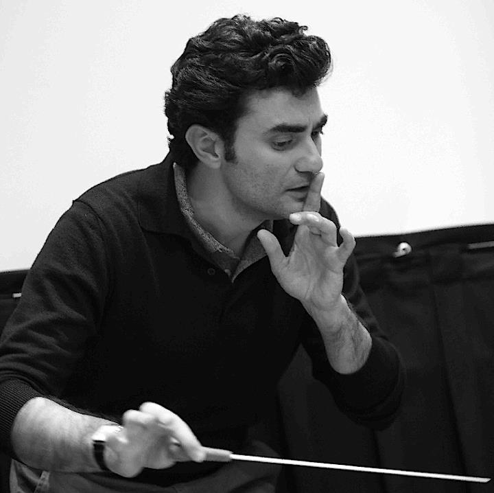 Iñigo Pírfano is the founder and conductor of the Orquesta Académica de Madrid